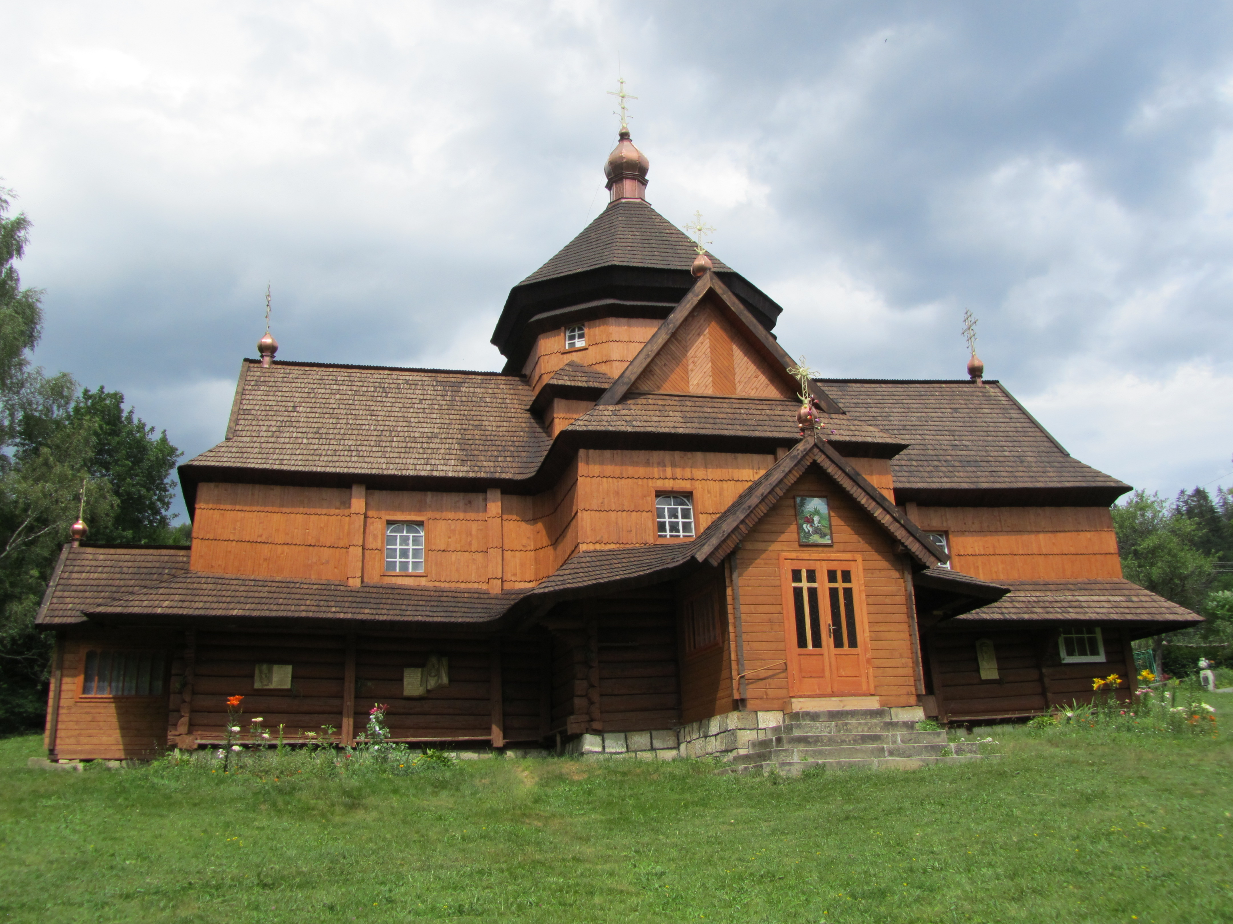 Church of Nativity of the Theotokos (Kryvorivnya, Ukraine)